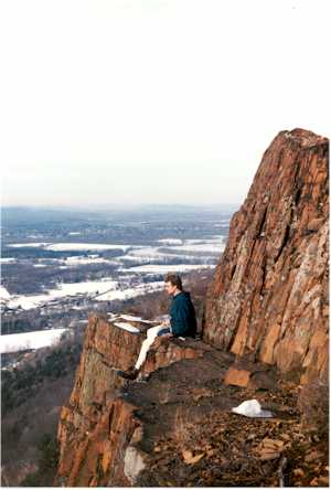 Mount Tom. Mountain in Massachusetts. Circa 1996, winter. Taken by Paul W. Gagnon. For article Mount Tom Range